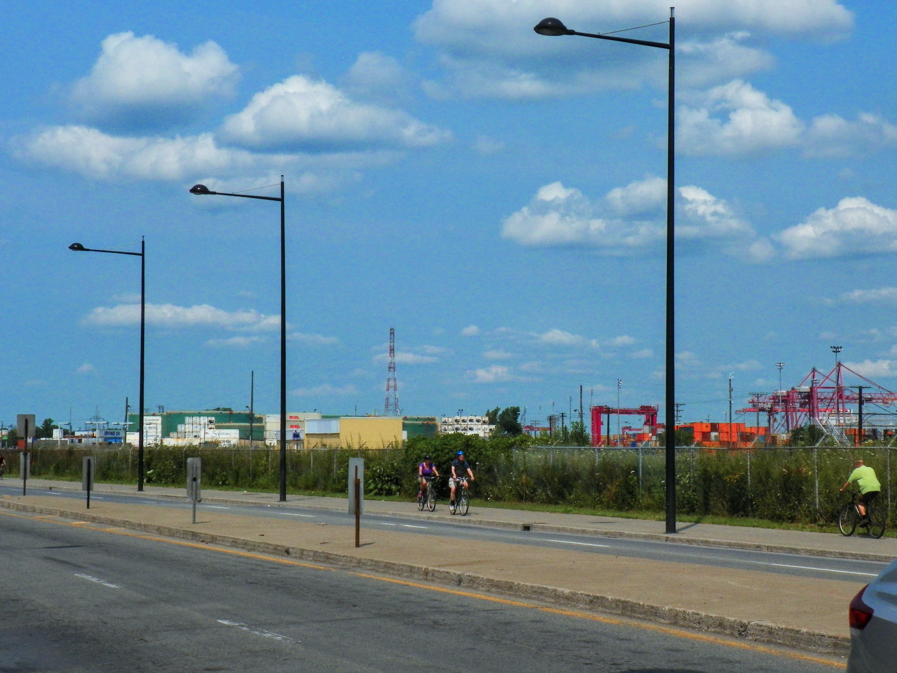 A view of the Montréal harbour from Notre-Dame East street in Mercier-Ouest neighbourhood